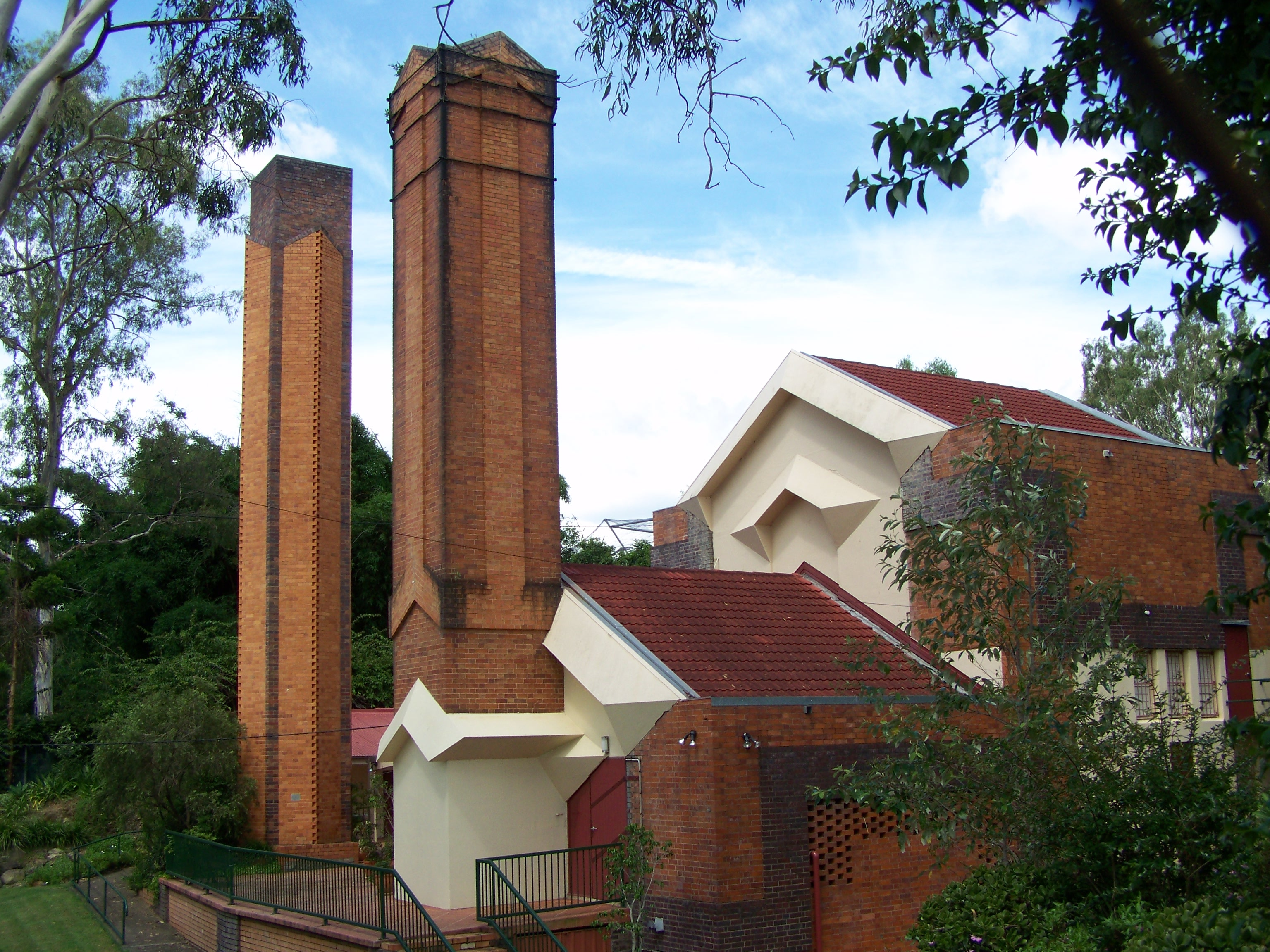 Walter Burley Griffin Incinerator, Ipswich, Australia.